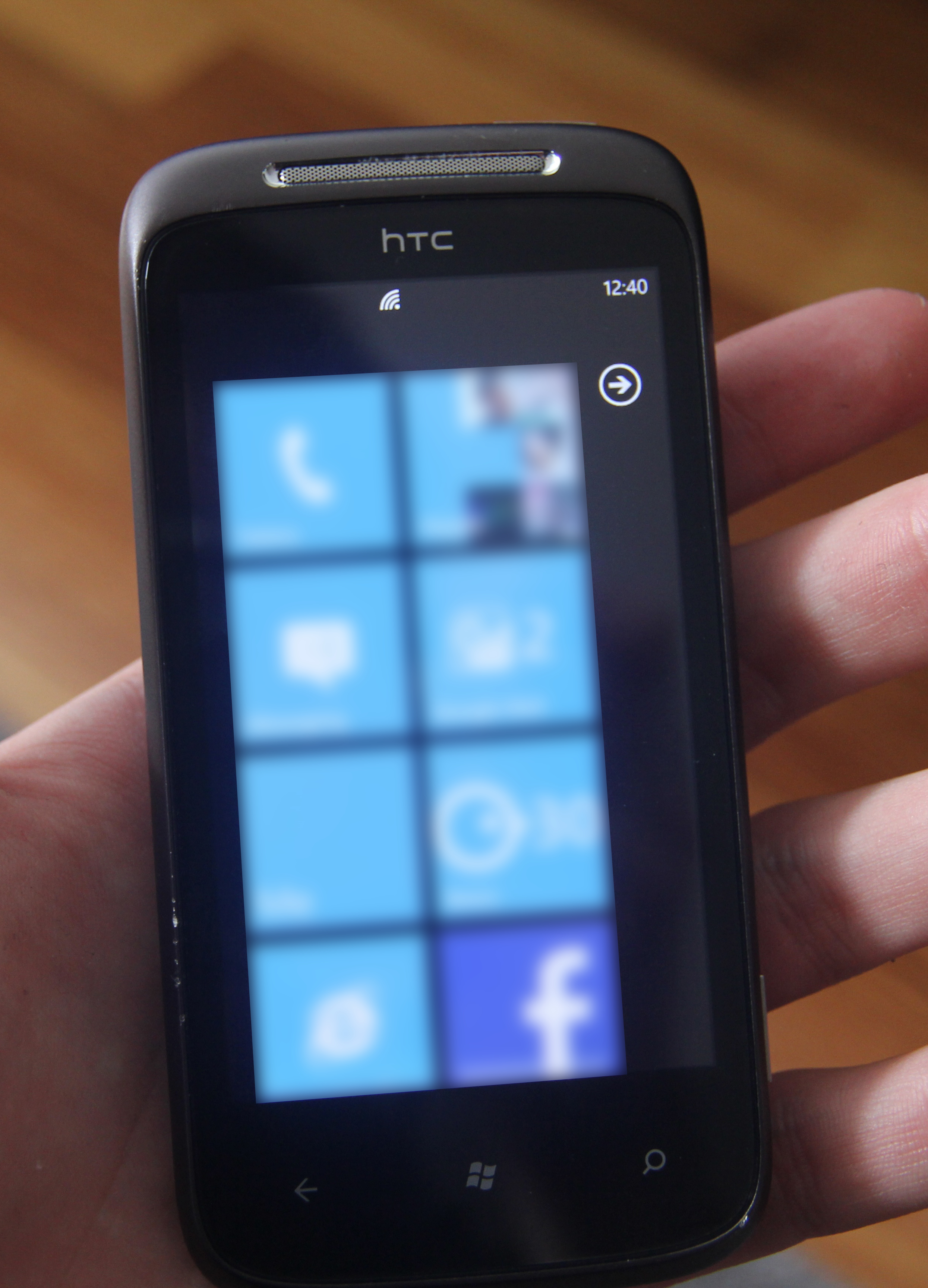 HTC Mozart